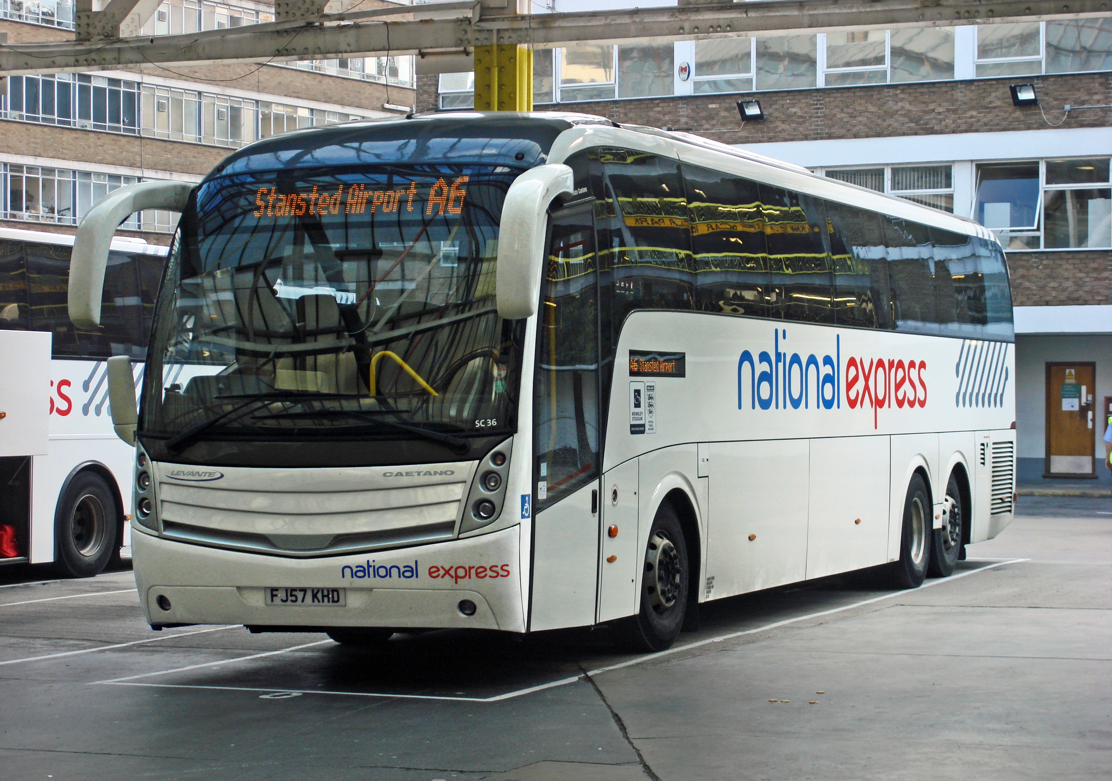 A National Express coach on route A6 at Victoria Coach Station.